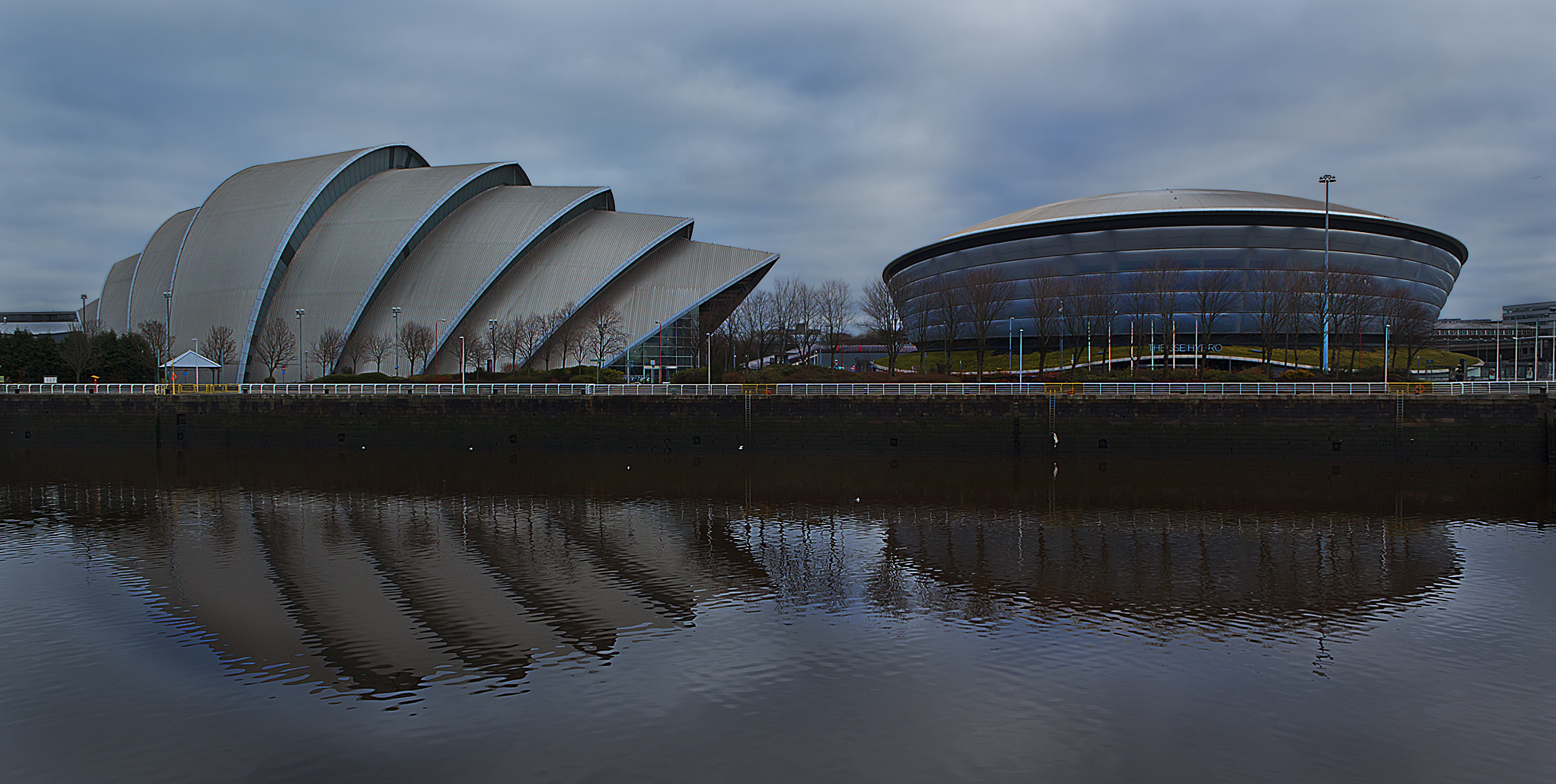 Armadillo/Hydro